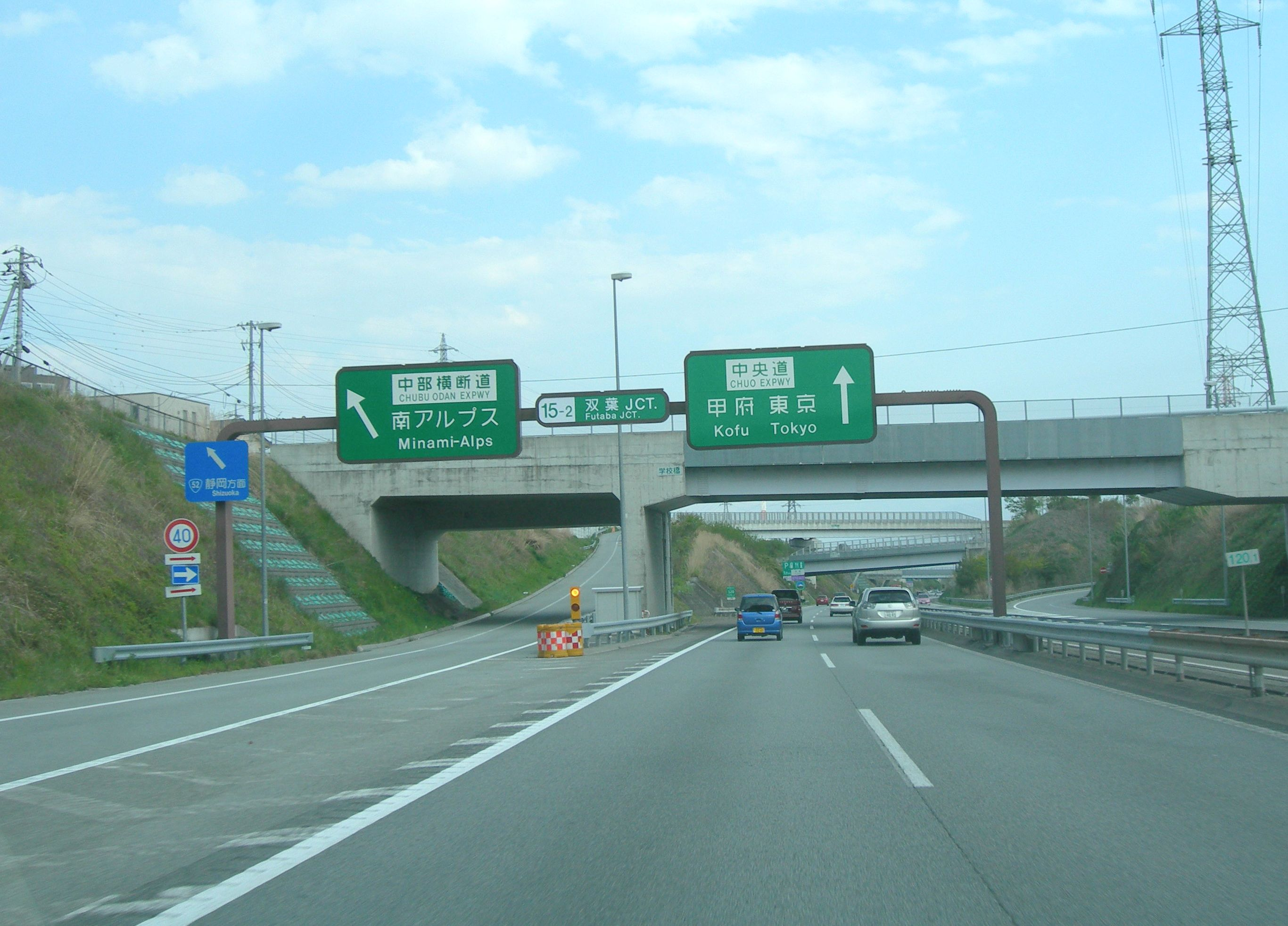 Futaba Junction on the Chuo Expressway inbound line (for Tokyo)